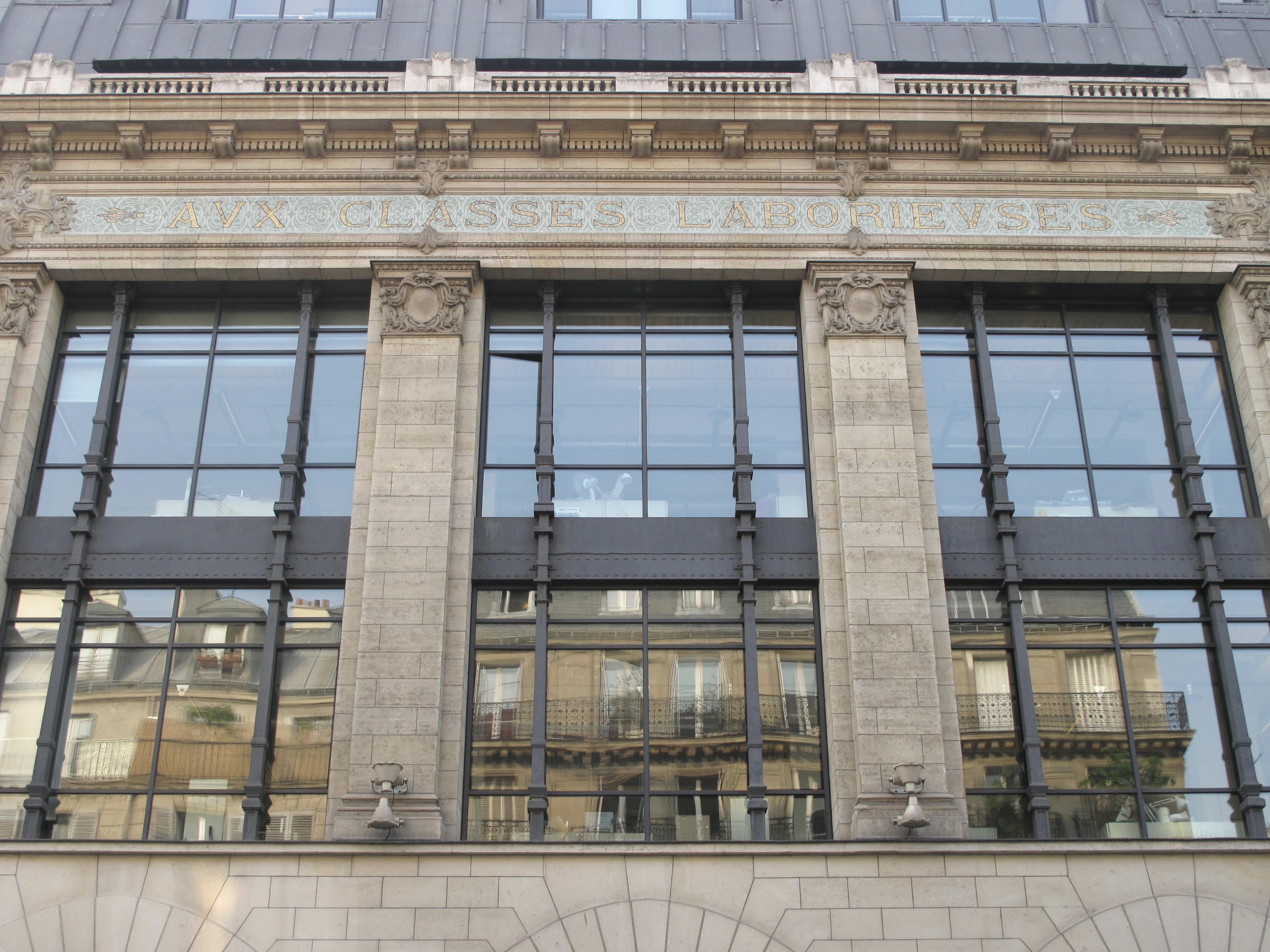 Facade of the former furniture shop Levitan. With in inscrition "Aux classes laborieuses" (=To the classes of workers) : 85-87 rue du faubourg Saint-Martin, Paris 10th arrond. During the german occupation of WWII, they were used to store and sort the furniture of jewish people deported to the concentration camps.